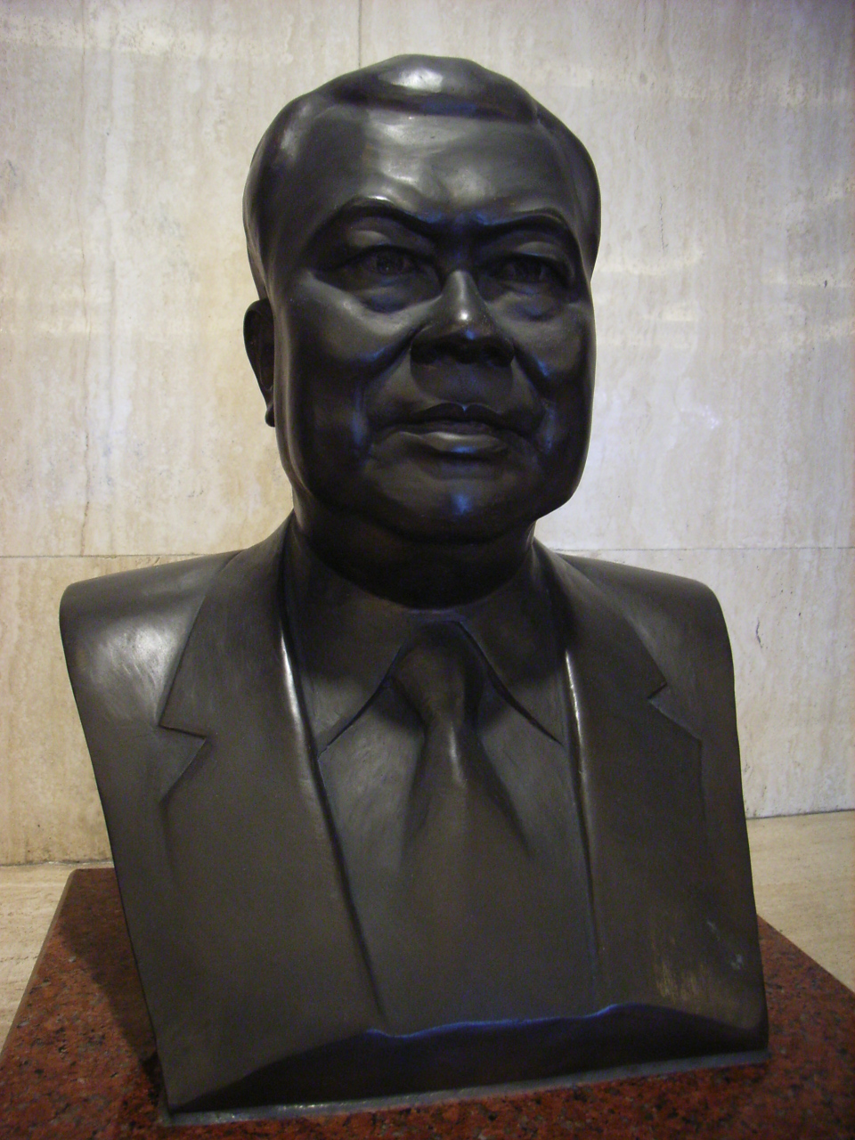 Wu Chung House, Wan Chai, Hong Kong User:WU LO CHUN